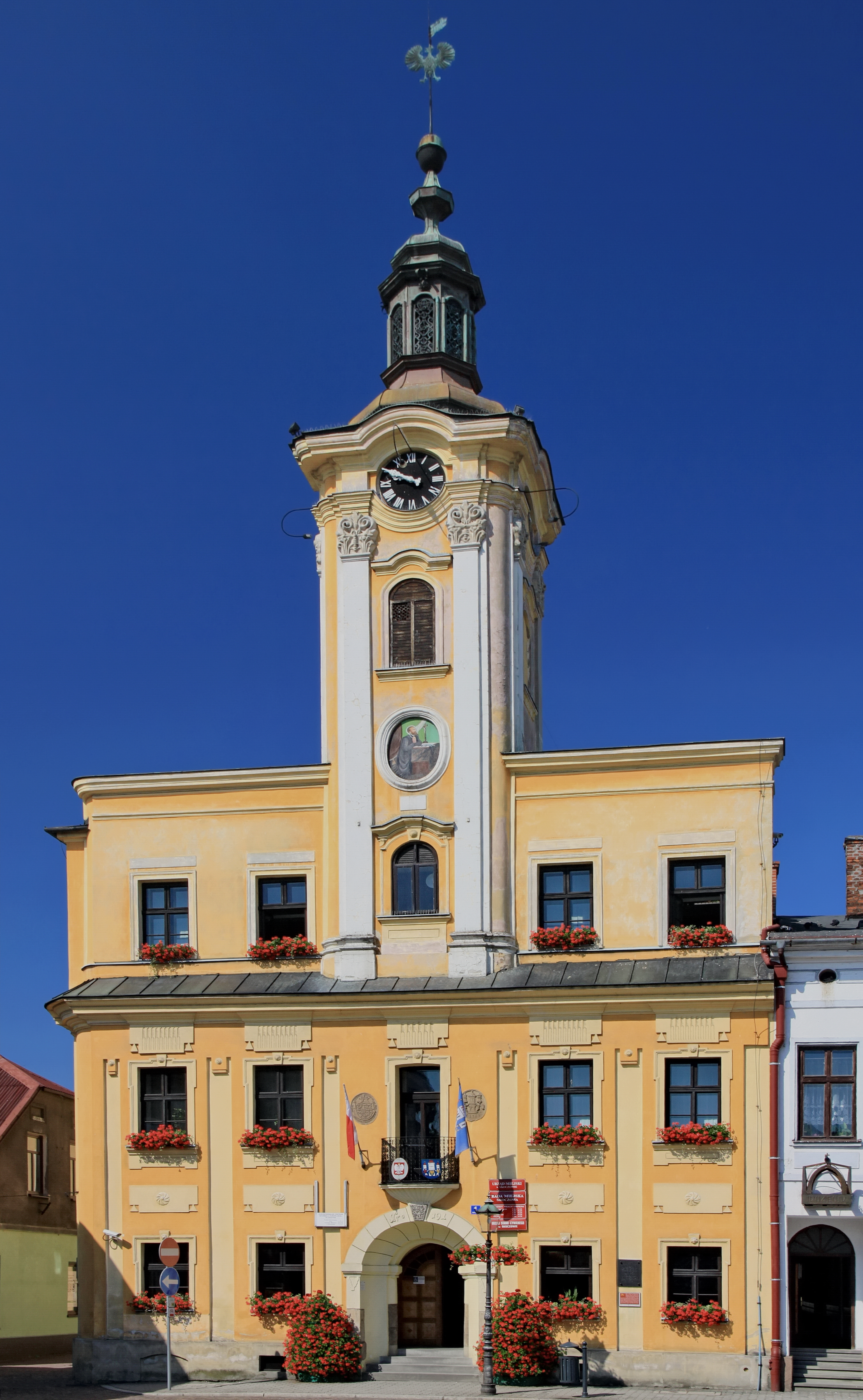 Skoczów, town hall, build in 1797-1801, 1934